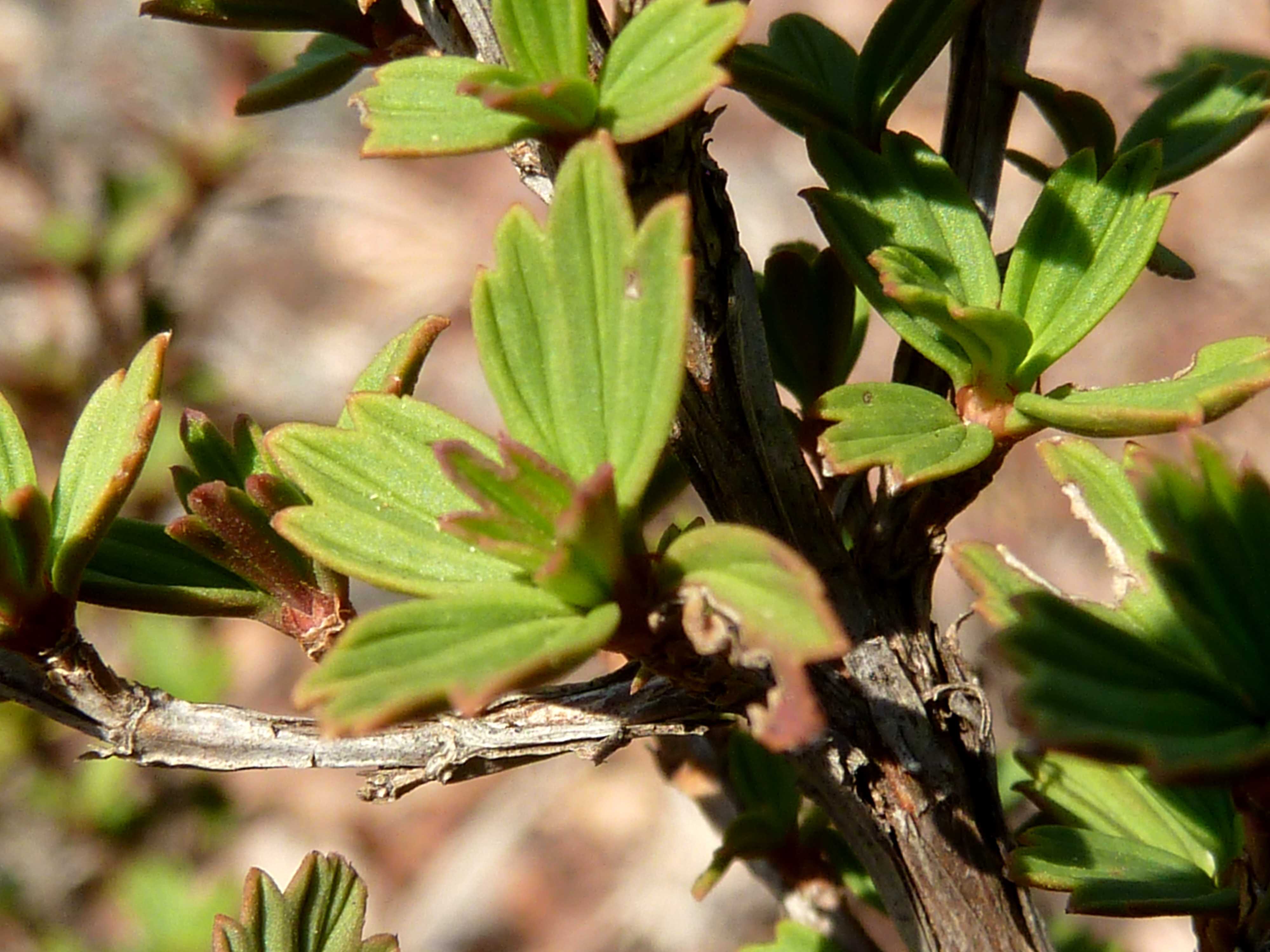 Green foliage of a Resurrection plant at Little Eden in De Tweedespruit conservancy.